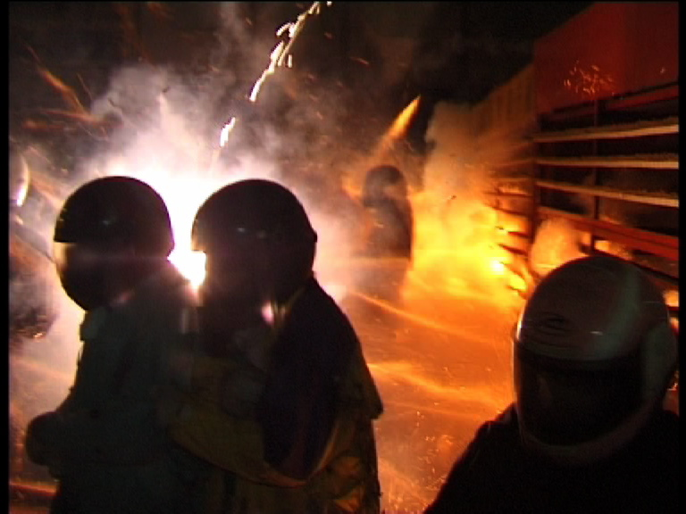 People being hit by rockets at the Yanshui Beehive Fireworks Festival in Tainan on Taiwan.